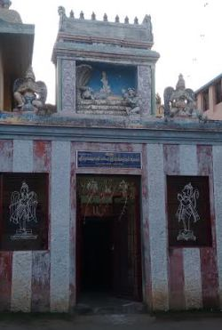 Thanjavur melavasal ranganathar temple தஞ்சாவூர் மேலவாசல் ரங்கநாதர் கோயில்